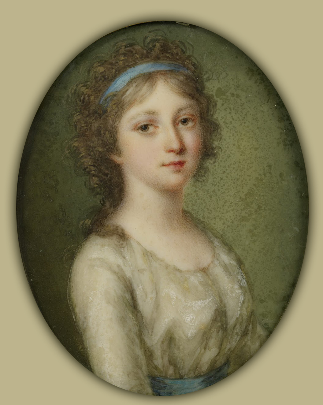 Juliana, Grand Duchess of Russia (1781-1860) It is thought that the artist may have been Carl Herman Pfeiffer (1769-1829). Pfeiffer was born in Frankfurt but settled in Vienna, working mainly as an engraver of portraits by other Austrian miniaturists, but he is known to have painted some miniatures himself. The inscription is unclear, but the miniature may be signed and dated: BO & P ...9.